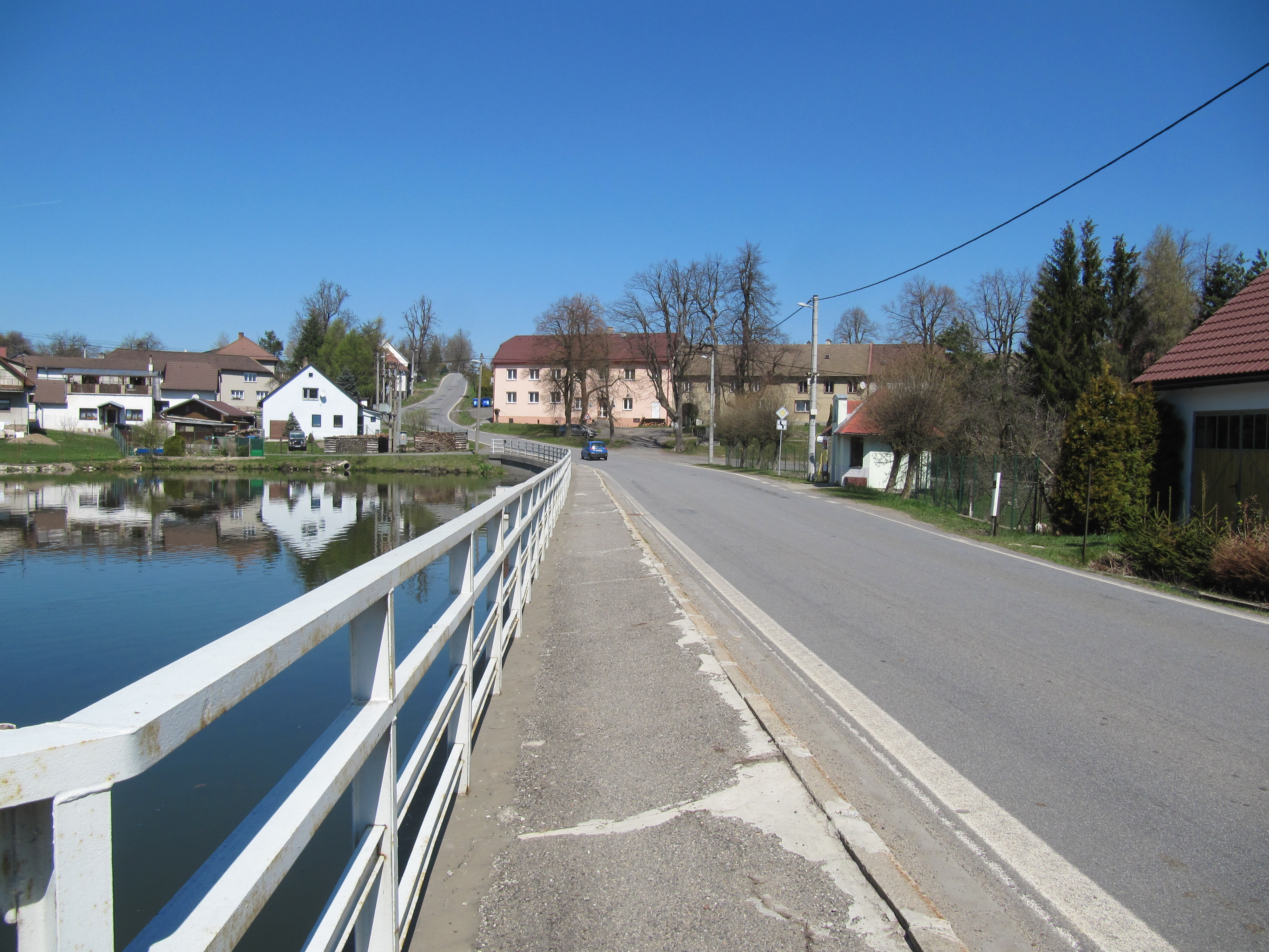 Písečné, Žďár nad Sázavou District, Czechia.